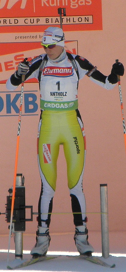 Anastasia Kuzmina in Antholz, 22-01-2010